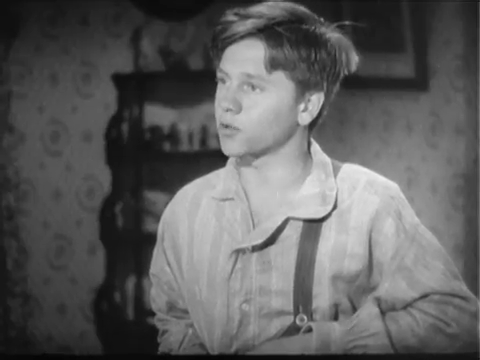 Mickey Rooney in The Adventures of Huckleberry Finn (1939), directed by Richard Thorpe.